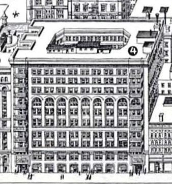 The 1889 RandMcNally building (shown as #4) in Chicago on Adams St. between Wells and Quincy. Demolished 1911. From Rand McNally "bird's eye views" from 1890s guides.